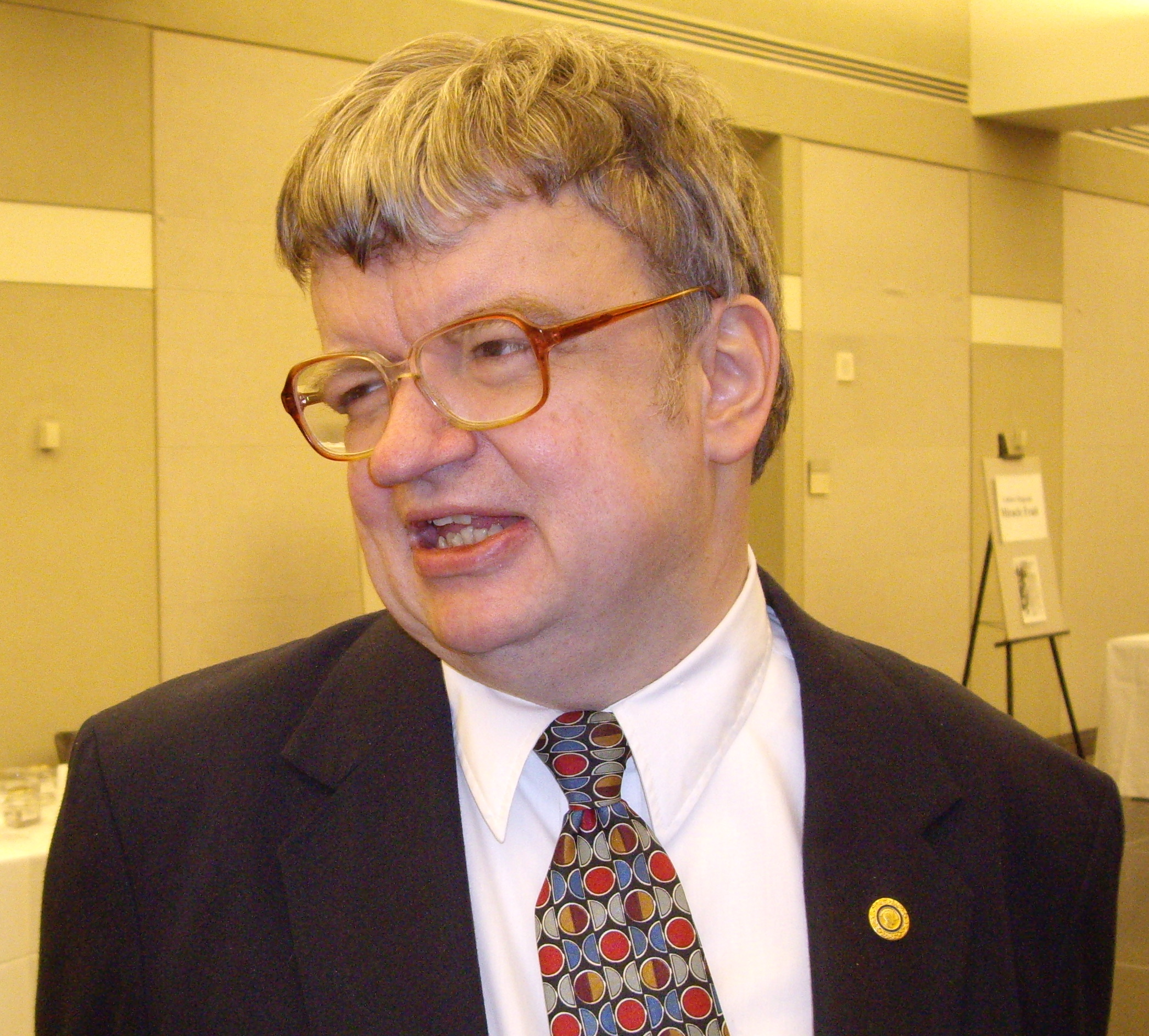 Kim Peek on Jan 16, 2007